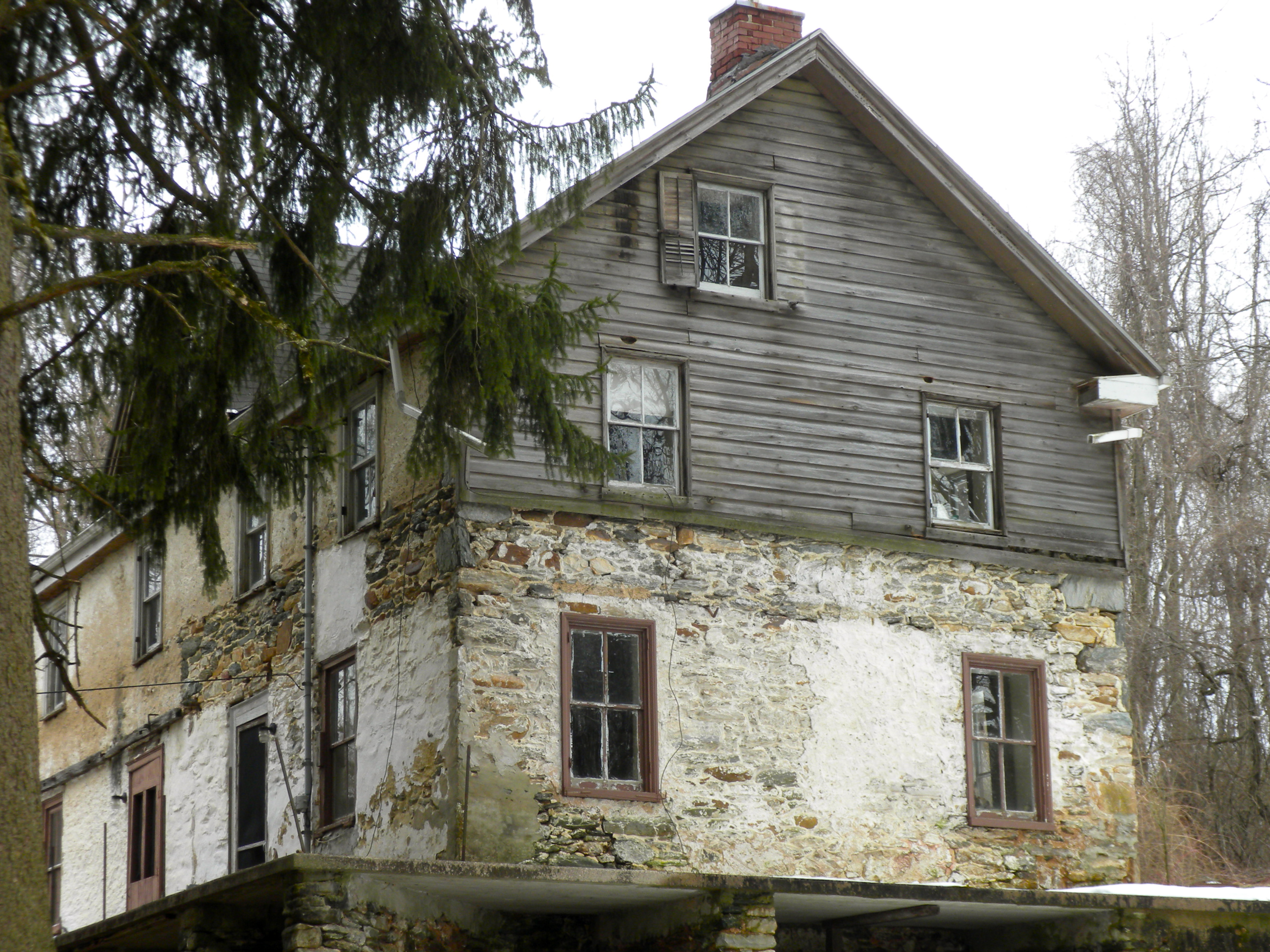 Edward Dougherty House, abandoned and nearly in ruins, on Mt. Carmel Road, north of Strasburg Rd, in western Chester County, PA (East Fallowfield Township). On NRHP since May 20, 1985. Near Coatesville. Possibility that this may be nearby Phillip Dougherty House also on NRHP. Together with the Scott House, ther are 3 NRHP sights on a short stretch of Mt. Carmet Rd., but I can only find 2.